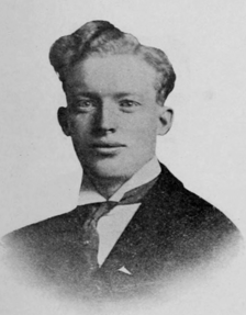 Vasco Tanner class of 1915 photo from the 1914 Banyan (Brigham Young University yearbook)